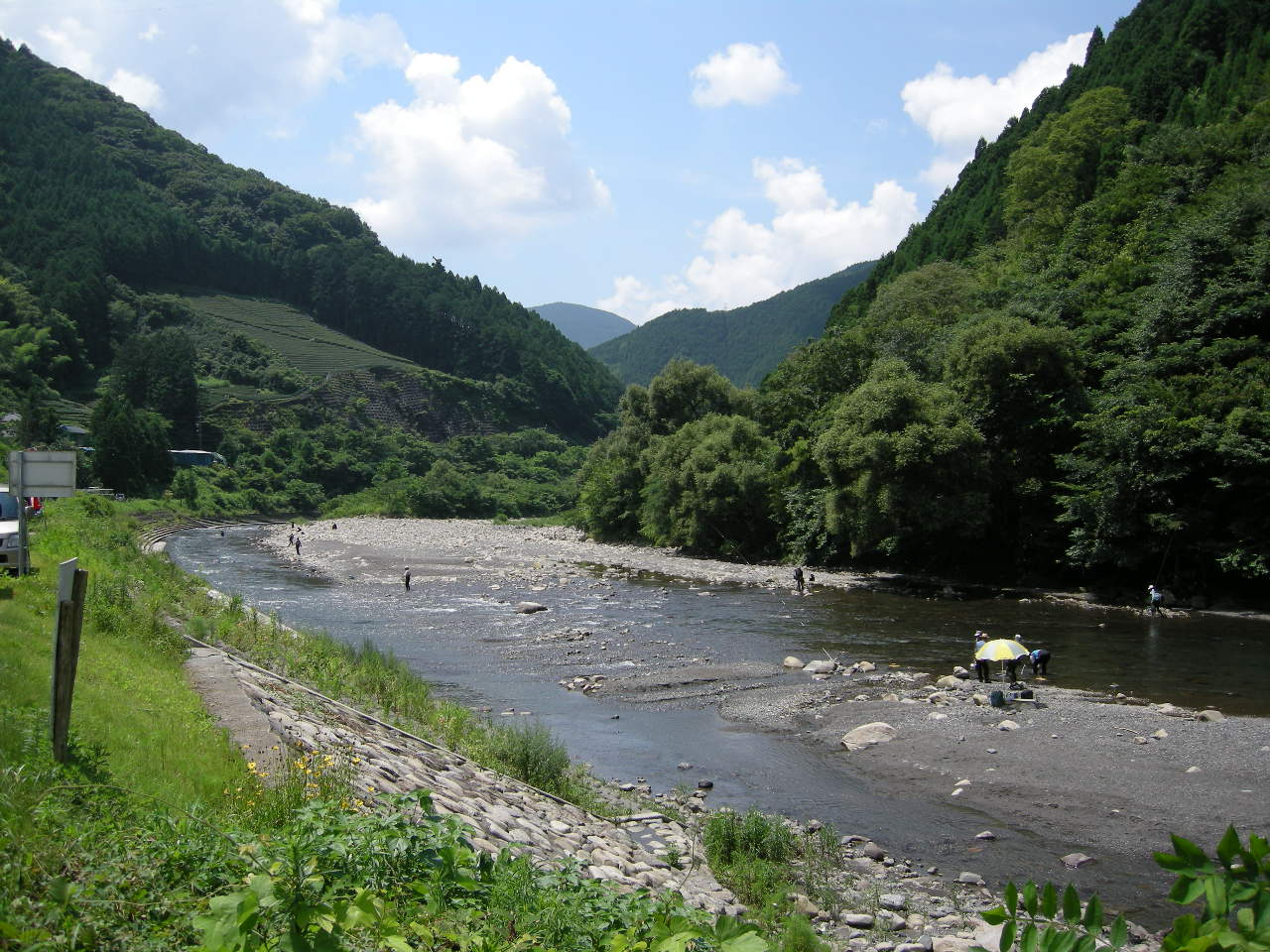 Warashina river,Hiruido,Aoi-ward,Shizuoka city,Shizuoka Prefecture 藁科川